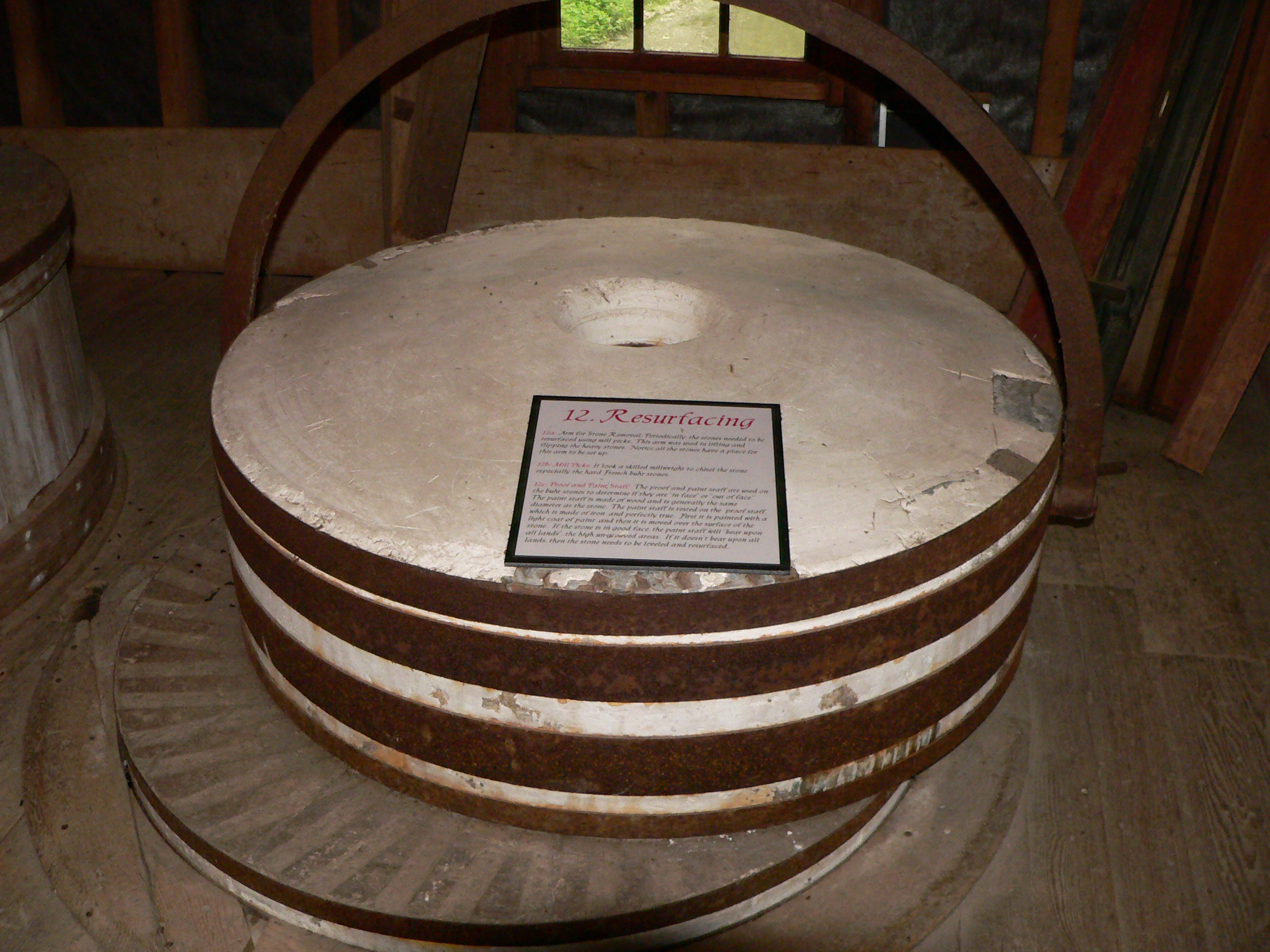 Burh stone in Bear's Mill near Greenville, OH.